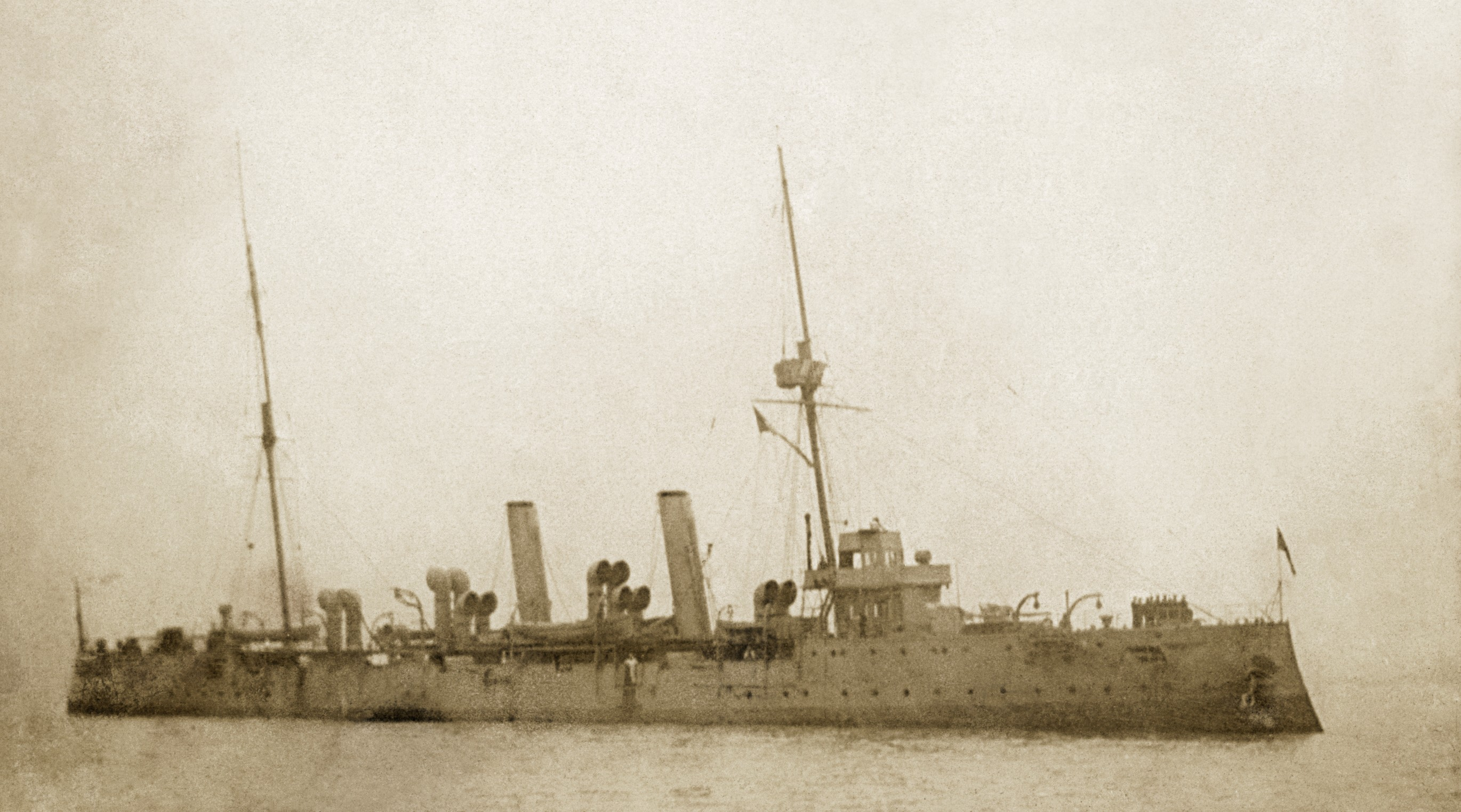 HMS Pandora (1900). According to the handwritten text on the album sheet to which the photograph is affixed this is 'H.M.S "Pandora"'. There is no information as to who the photographer may be, and considering that the photograph must have been taken before 1913 (the date HMS Pandora was scrapped), it is unlikely that he/she can now be identified.